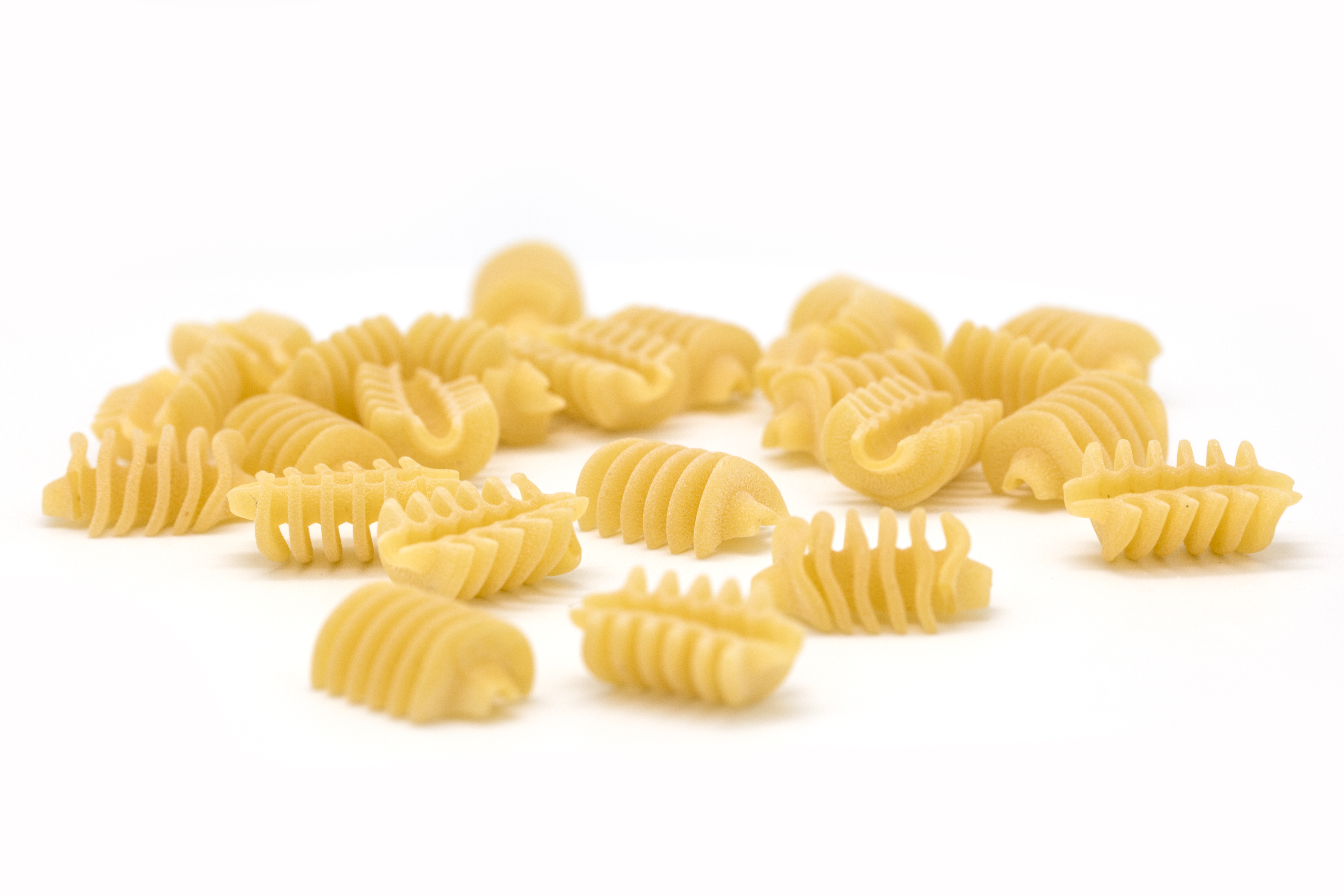 Radiatori are radiator-shaped pasta